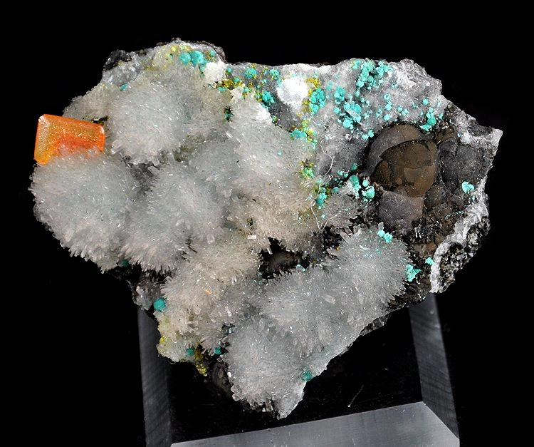 Wulfenite, Hemimorphite, Rosasite, Goethite Locality: 79 Mine (79th Mine; Seventy-Nine Mine; Seventy-Nine property; McHur prospect), Chilito, Hayden area, Banner District, Dripping Spring Mts, Gila County, Arizona, USA (Locality at ) Size: 5.5 x 4.4 x 1.5 cm. A classic, old-time and rare combination plate from the 79 Mine and the Jaime Bird Collection. A lustrous, 9 mm, color-zoned wulfenite is aesthetically set on sparkling, radial aggregates of colorless hemimorphite blades with a dusting of pretty, powder-blue rosasite botyroids adjacent to goethite botryoids.